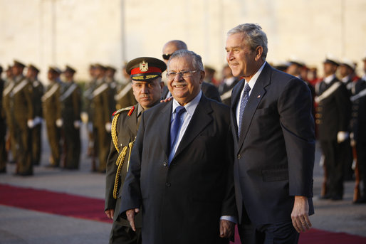 President George W. Bush walks with Iraq's President Jalal Talabani folowing his review of an honor guard upon his arrival Sunday, Dec. 14. 2008 to the Salam Palace in Baghdad, where President Bush met with Iraq's leadership.